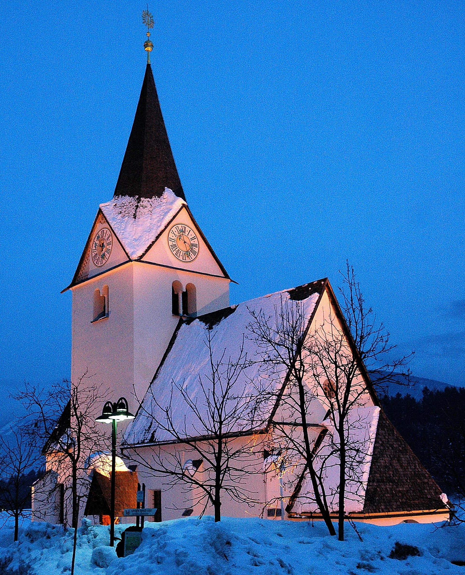 Parish church Saint James the Greater in Ludmannsdorf (Bilčovs), municipality Ludmannsdorf, district Klagenfurt Land, Carinthia / Austria / EU